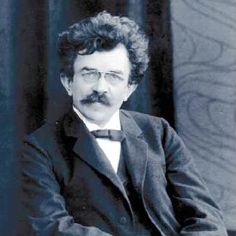 Max Hermann, ca. 1900 Max Herrmann Max Herrmann Max Herrmann